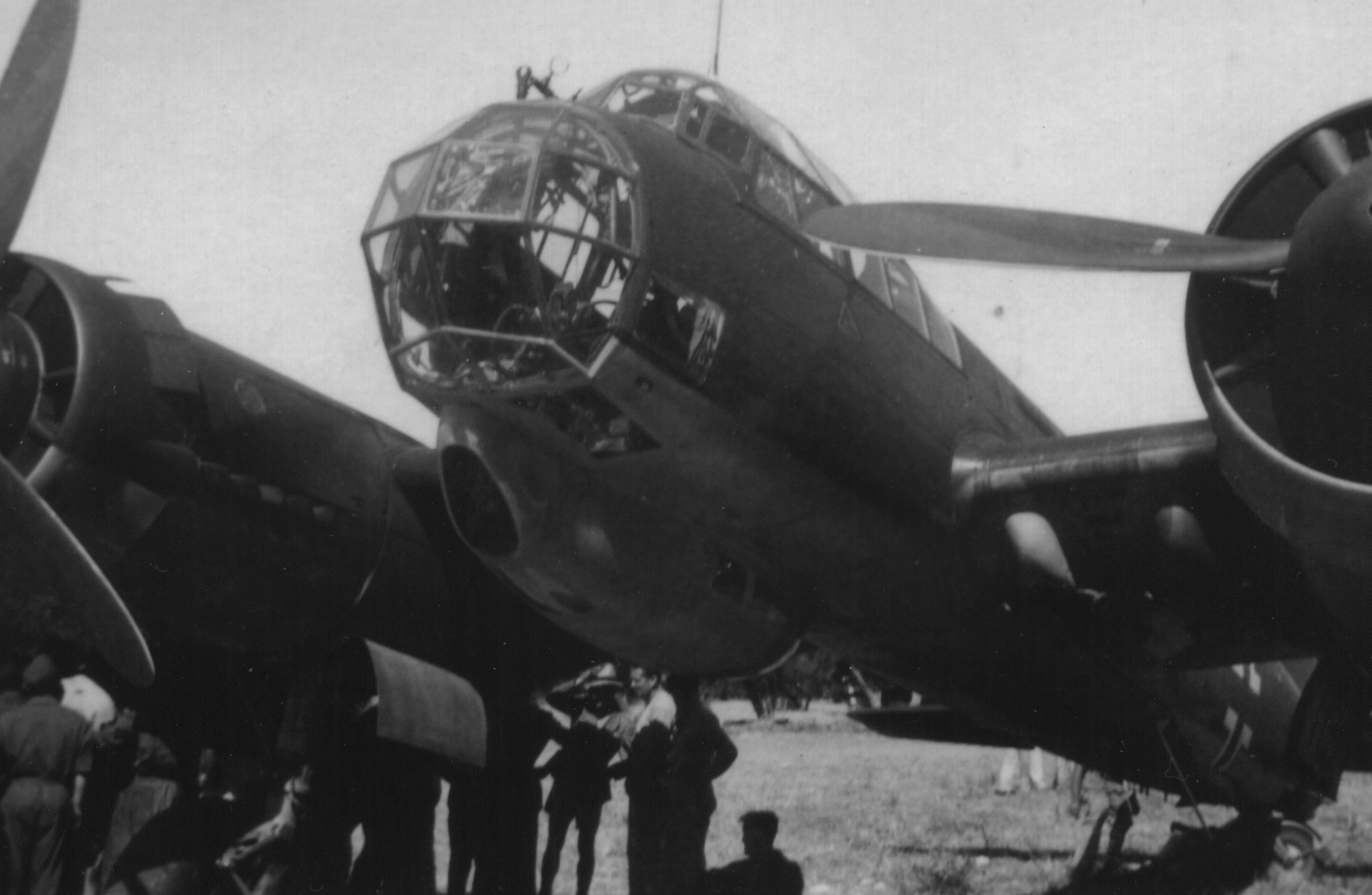 Junkers Ju 88 WWII airplane. From the private archive of Riggio family.